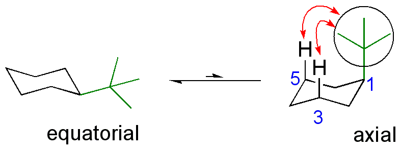 Schematic representation of equatorial-axial equilibrium of tetr-butylcyclohexane.